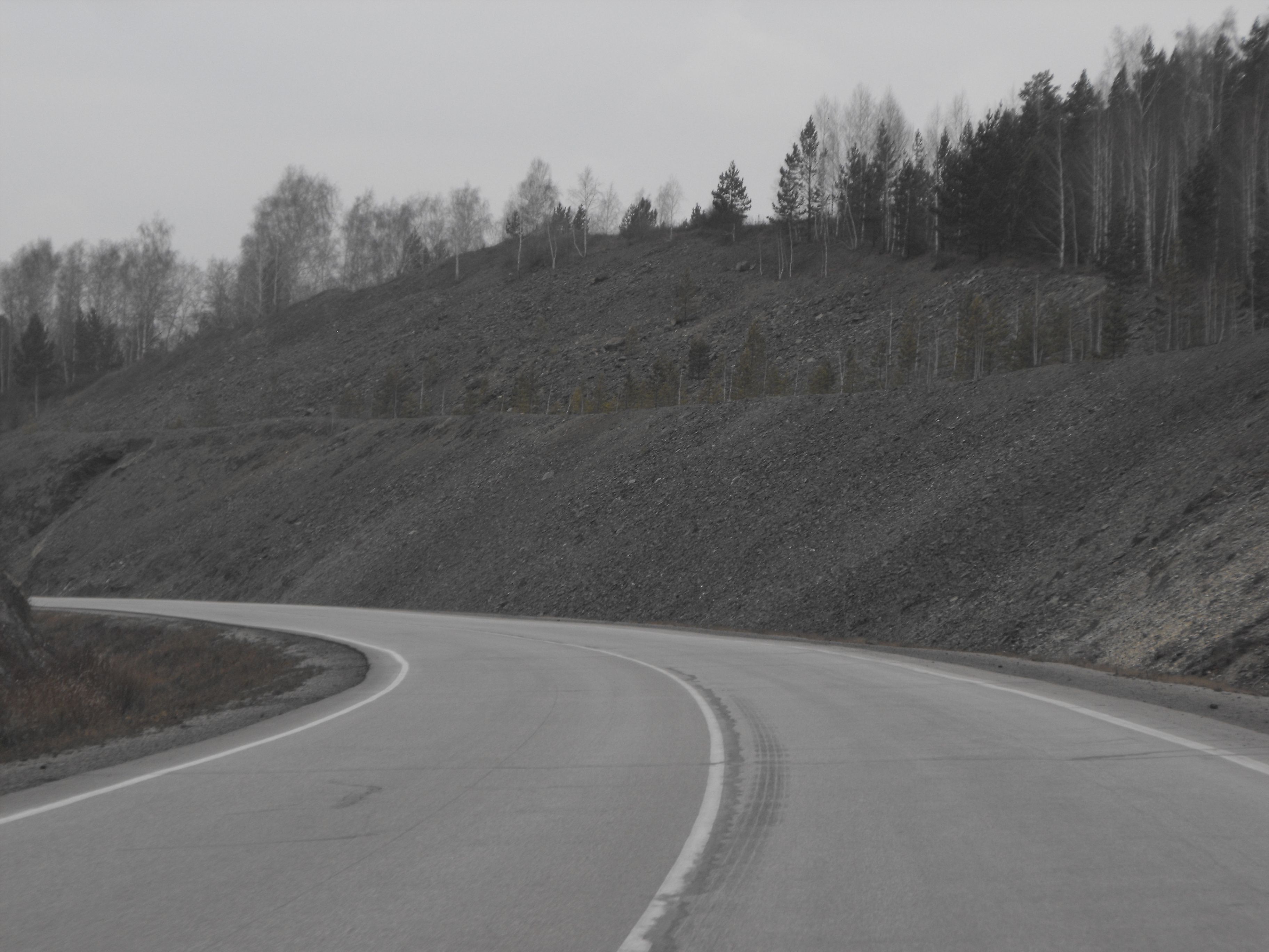 Guryevsky District, Kemerovo Oblast, Russia